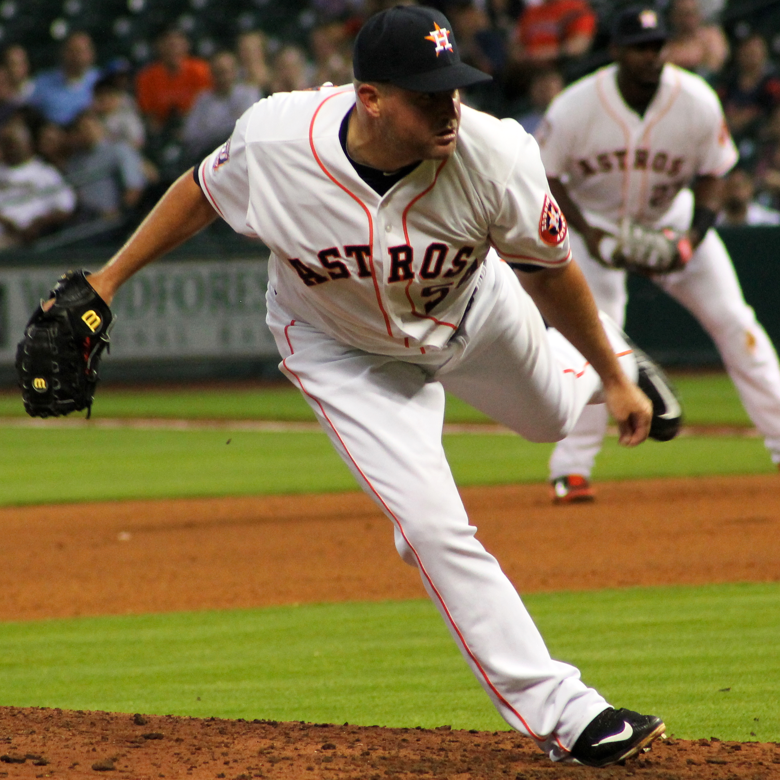 Professional baseball player Joe Thatcher during a game in Houston in April 2015.